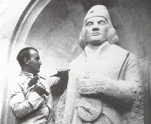 Coert Steynberg working on the Diaz-statue at South Africa House, London 1933